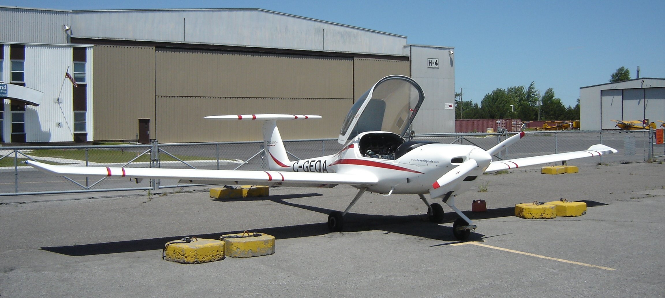 Diamond DA20-C1 Katana C-GEQA on the ramp in St-Jean-sur-Richelieu, Quebec (CYJN) with the canopy open.